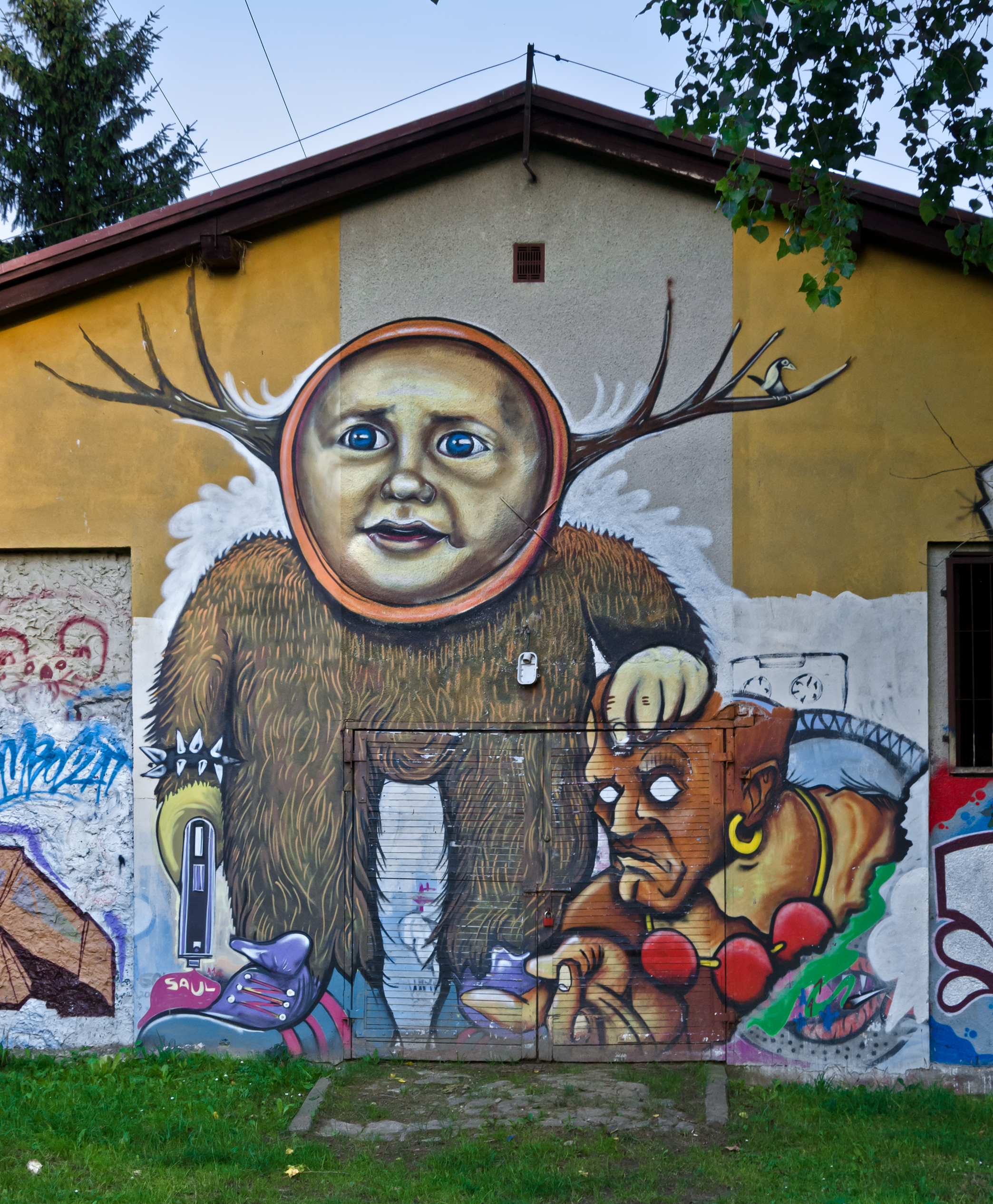 Graffiti in Kłodzko